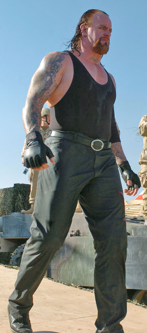 World Wrestling Entertainment (WWE) Smackdown visits the Soldiers of 1st Infantry Division in Iraq. WWE visited several Forward Operating Bases during their three day visit. They ended with a Tribute to the Troops show in Tikrit, Iraq.